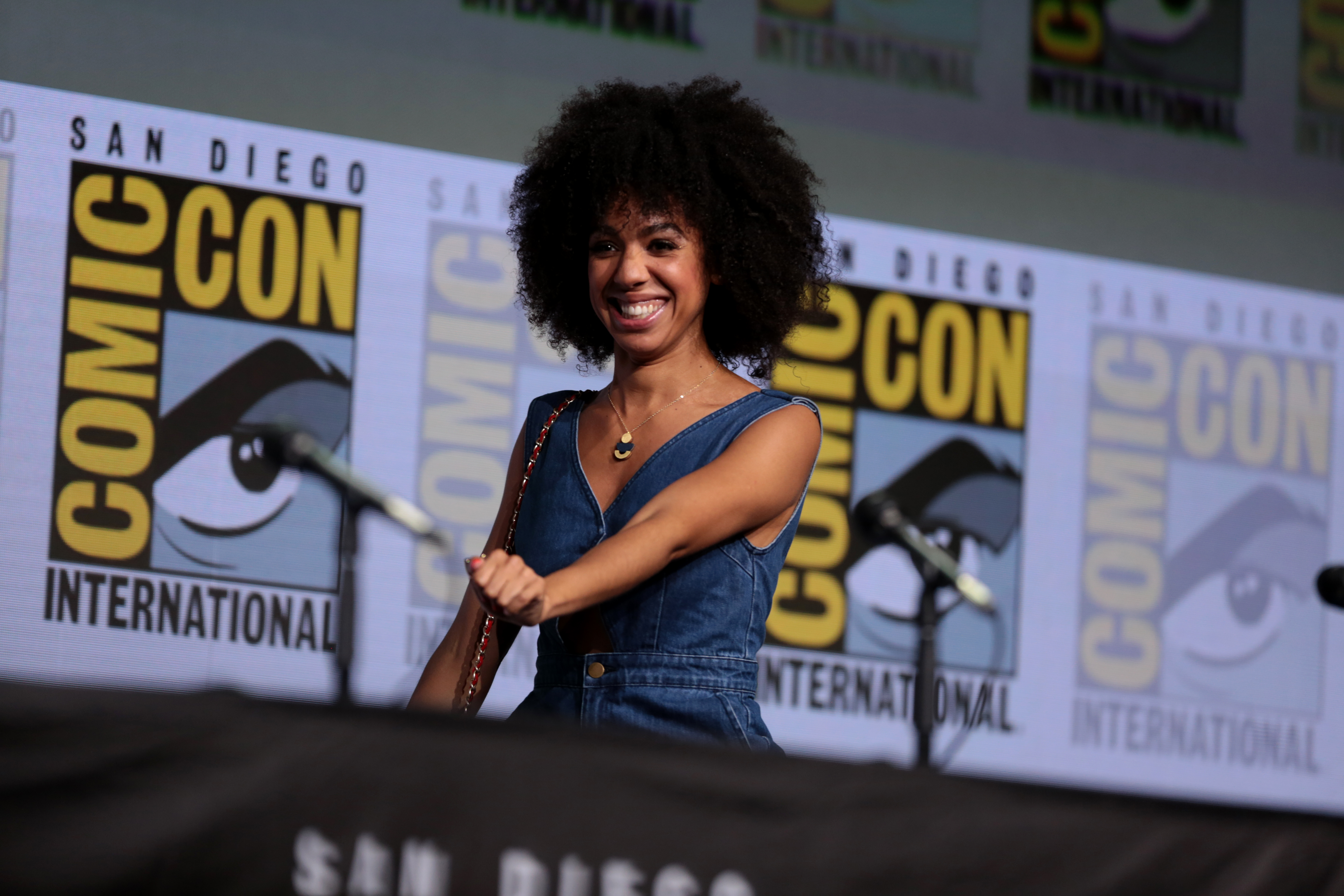 Pearl Mackie speaking at the 2017 San Diego Comic Con International, for "Doctor Who", at the San Diego Convention Center in San Diego, California.